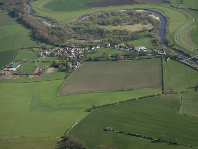 Great Langton and the River Swale, North Yorkshire, Great Britain